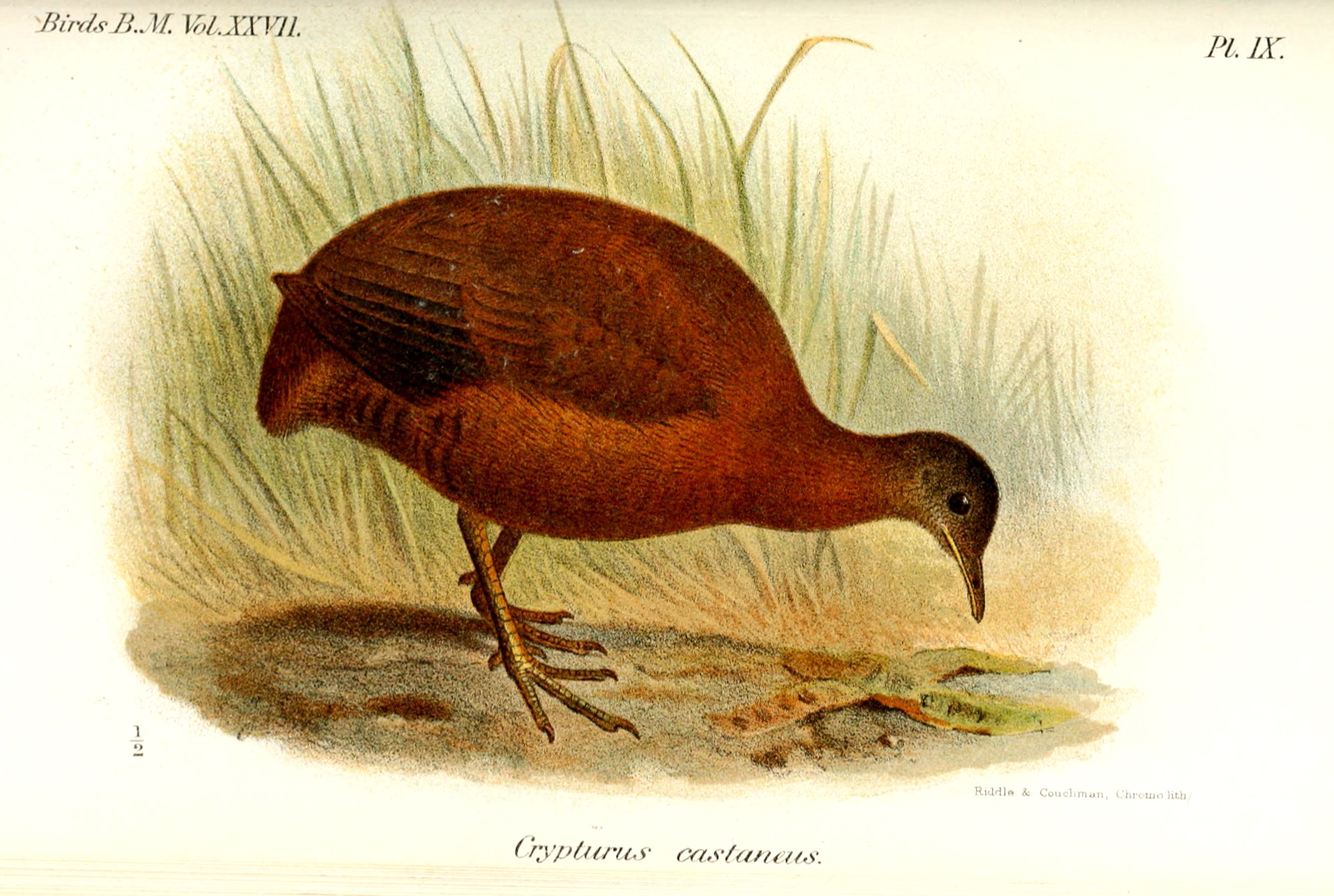 Crypturus castaneus = Crypturellus obsoletus castaneus, Brown Tinamou ssp.